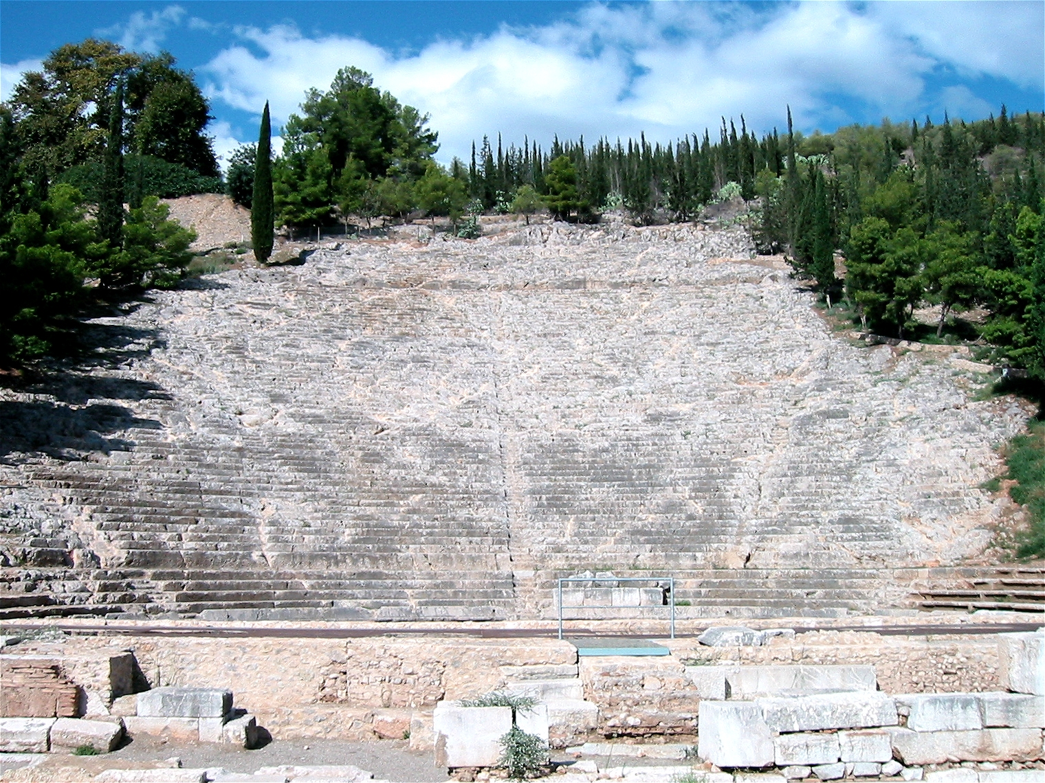 The ancient theater of Argos, Greece.